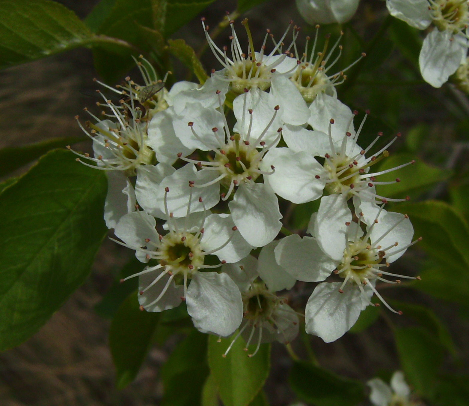 Prunus mahaleb flowers, Castelltallat Catalonia